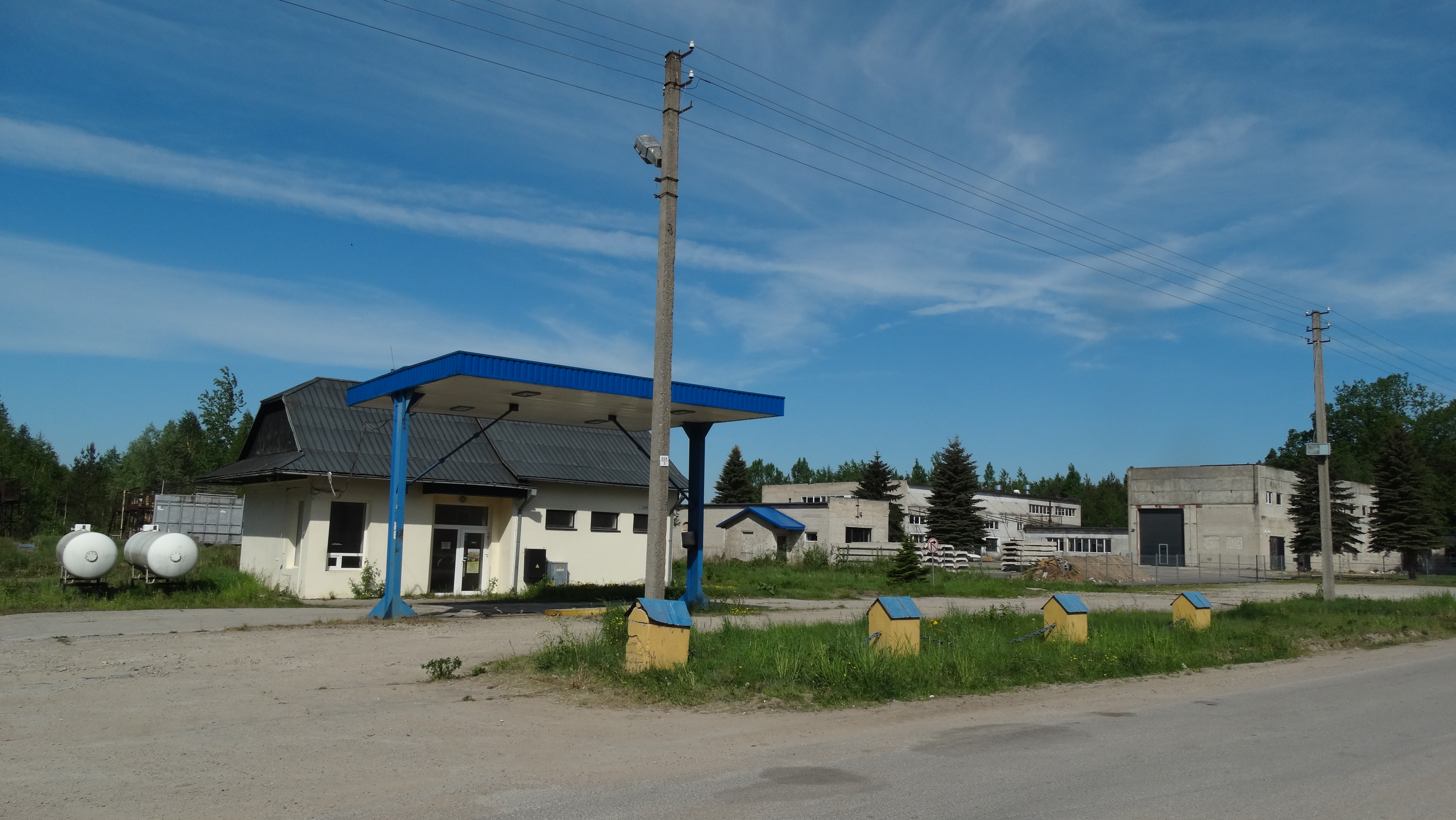 Didžiosios Zariškės, Kazlų Rūda municipality, Lithuania